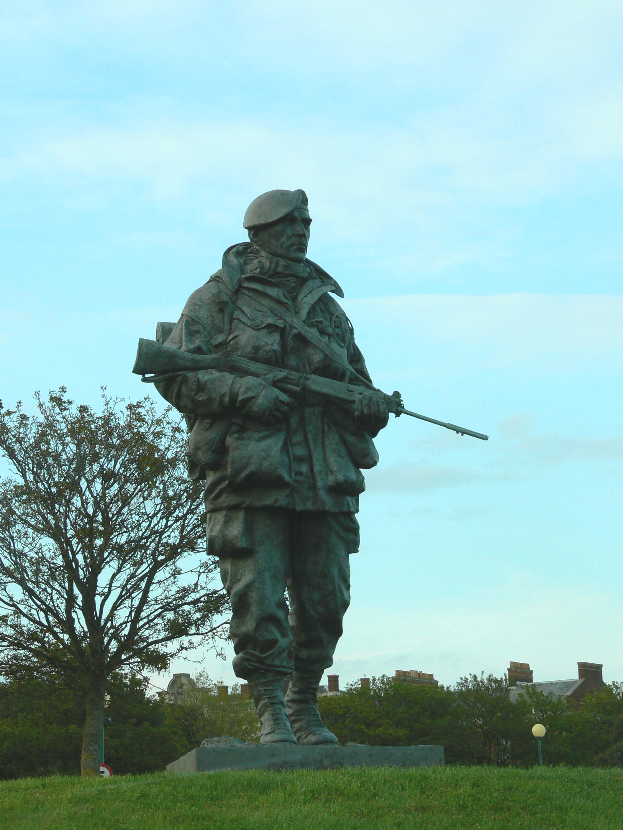 Statue of Royal Marine at the Museam on the sea front Southsea Portsmouth Hampshire. Based of photo of marine taken during Falklands conflict war